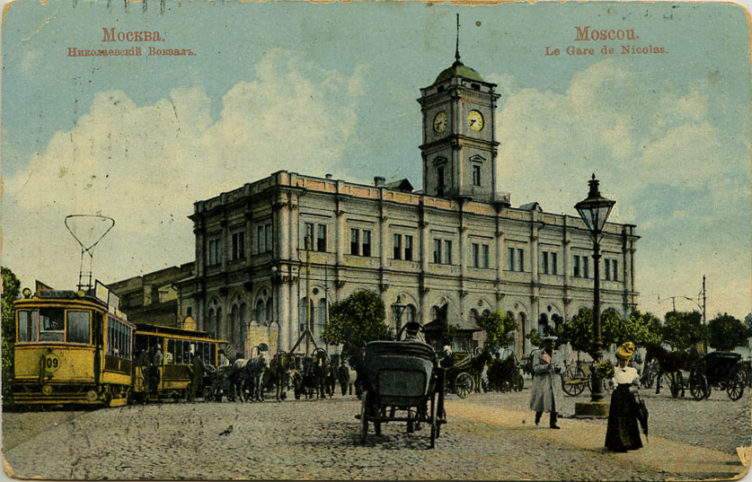 pre-revolutionaty russian postcard of Nikolaevsky (Leningradsky) Rail Terminal